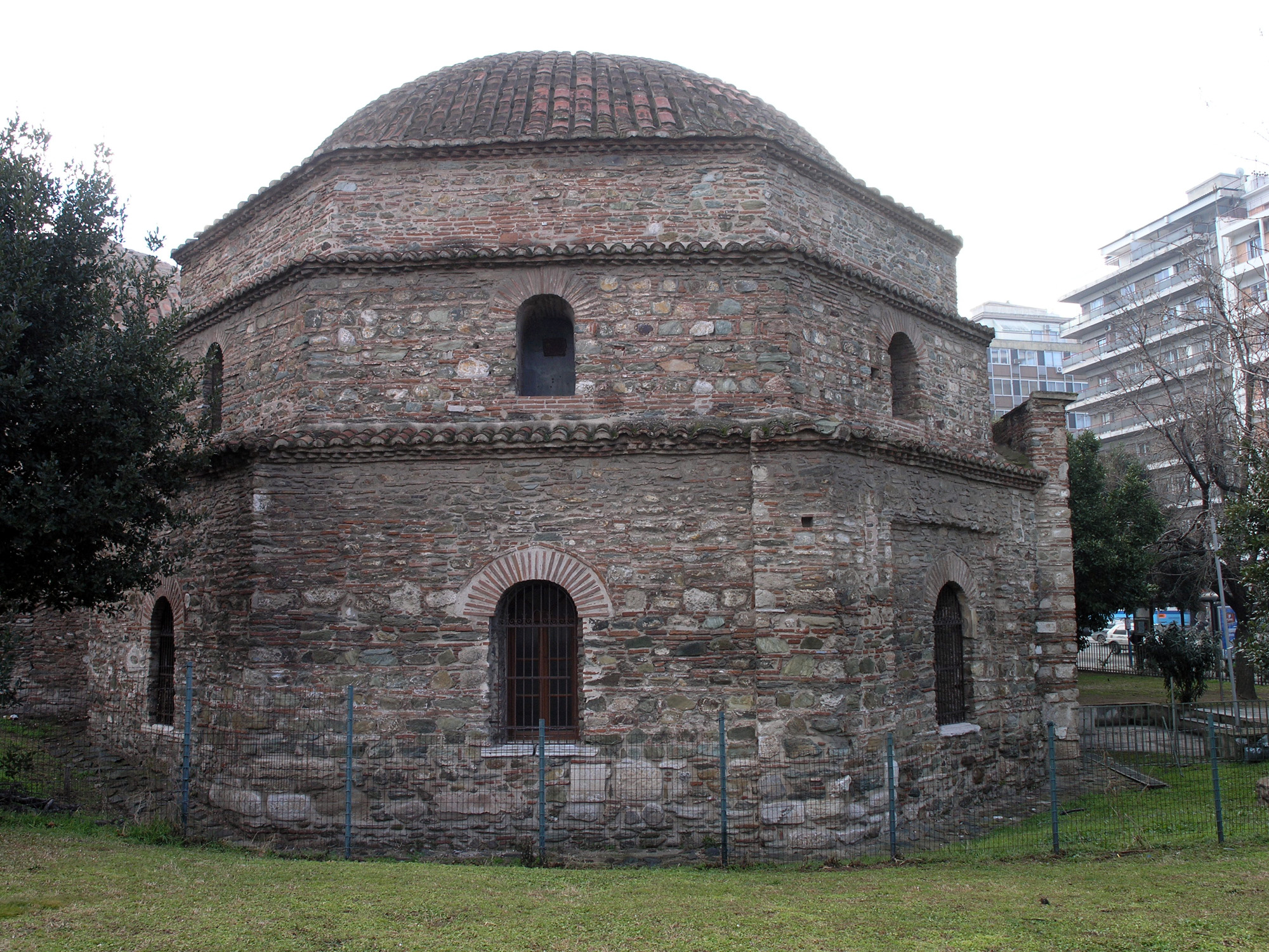 Outside view of the men baths in the Bey Hamam in Thessaloniki. Photograph taken by Marsyas 17:21, 26 February 2006 (UTC)